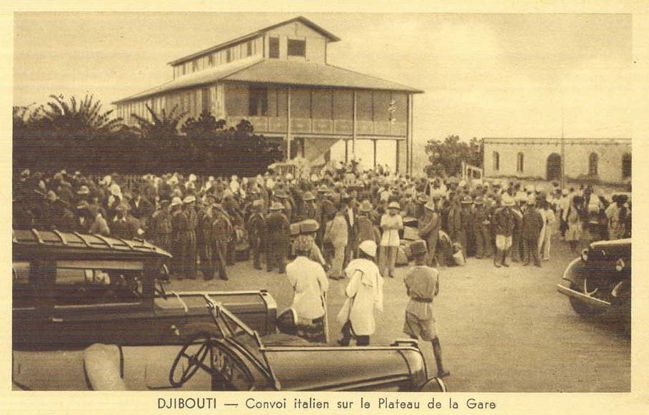 Italians monopolizing the Djibouti railway station c. 1936-40. The Franco-Ethiopian Railway connecting Djibouti to Addis Ababa was the most practical mean to reach southern Ethiopia and Addis Ababa from the coast, and the only feasible one during the rainy season. The French let the Italians use the railway and its facilities at will during their invasion and occupation of Ethiopia. A private commercial agreement was signed in Rome in July 1936, granting the Italians a substantial reduction in rates and further concessions were granted in 1938. The French-owned railroad company agreed to spend 70 million francs to increase the rolling stock, workshops, etc., to satisfy Italian needs. (Virginia Thompson and Richard Adloff, Djibouti and the Horn of Africa, Stanford University Press, 1968, p. 12)